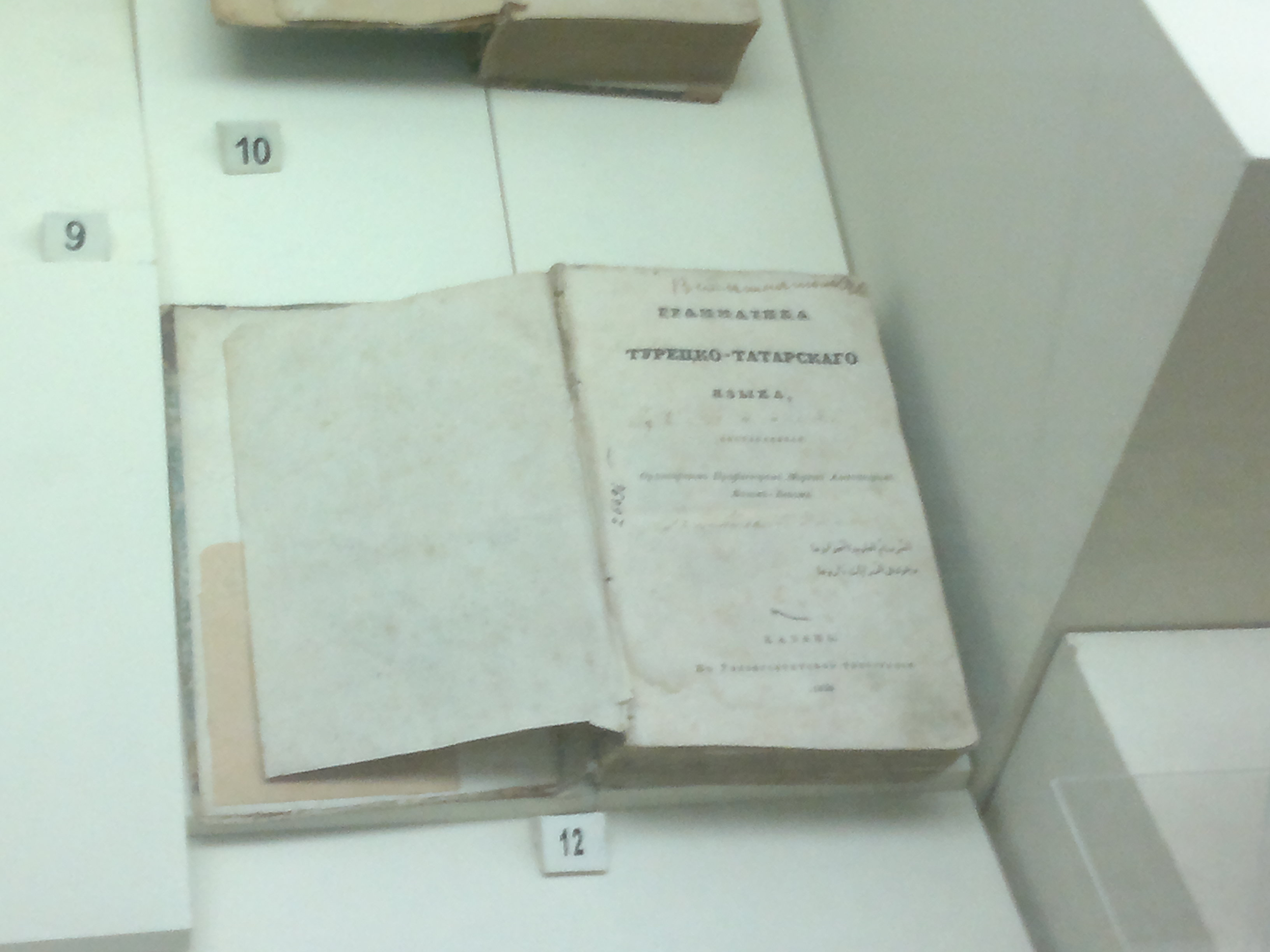 Gramma of Turko-tatar language by Mirza Kazembek (Tiflis, 1859).